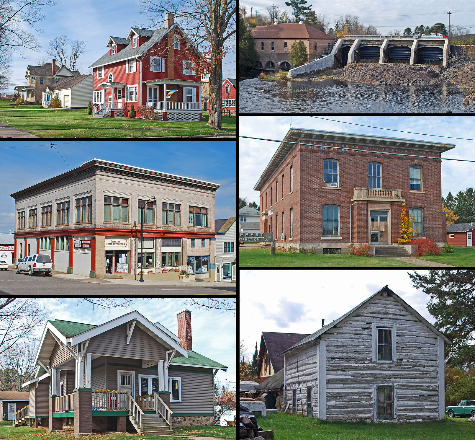 Iron County MRA picture set